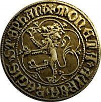 King Tvrtko I's gold coin (14th c.) reverse - with lion rampant. Srpskohrvatski / српскохрватски: Zlatnik Tvrtka I.